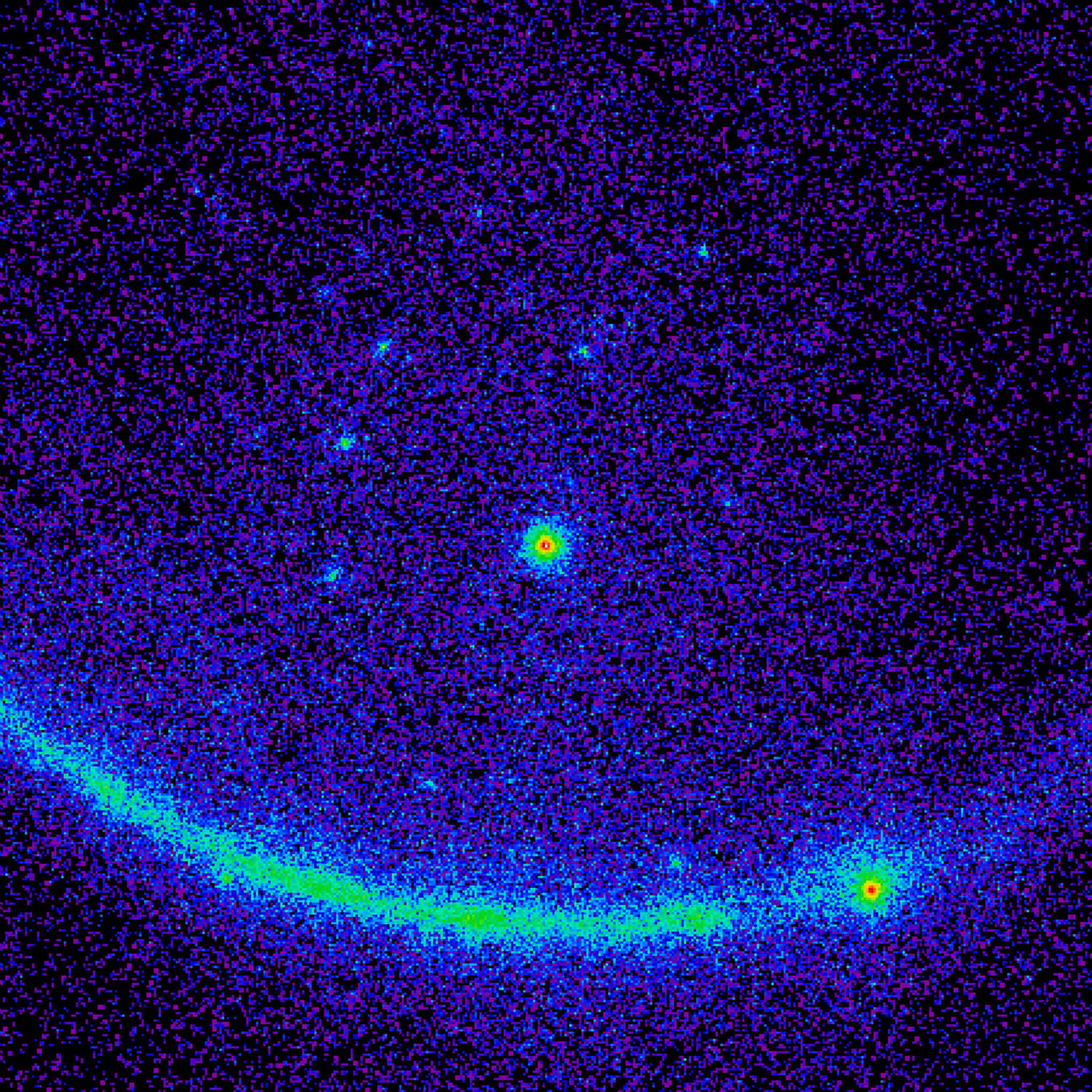 Blazar 3C 279's historic gamma-ray flare can be seen in this image from the Large Area Telescope (LAT) on NASA's Fermi satellite. Gamma rays with energies from 100 million to 100 billion electron volts (eV) are shown; for comparison, visible light has energies between 2 and 3 eV. The image spans 150 degrees, is shown in a stereographic projection, and represents an exposure from June 11 at 00:28 UT to June 17 at 08:17 UT. Read more: Credit: NASA/DOE/Fermi LAT Collaboration NASA image use policy. NASA Goddard Space Flight Center enables NASA’s mission through four scientific endeavors: Earth Science, Heliophysics, Solar System Exploration, and Astrophysics. Goddard plays a leading role in NASA’s accomplishments by contributing compelling scientific knowledge to advance the Agency’s mission. Follow us on Twitter Like us on Facebook Find us on Instagram